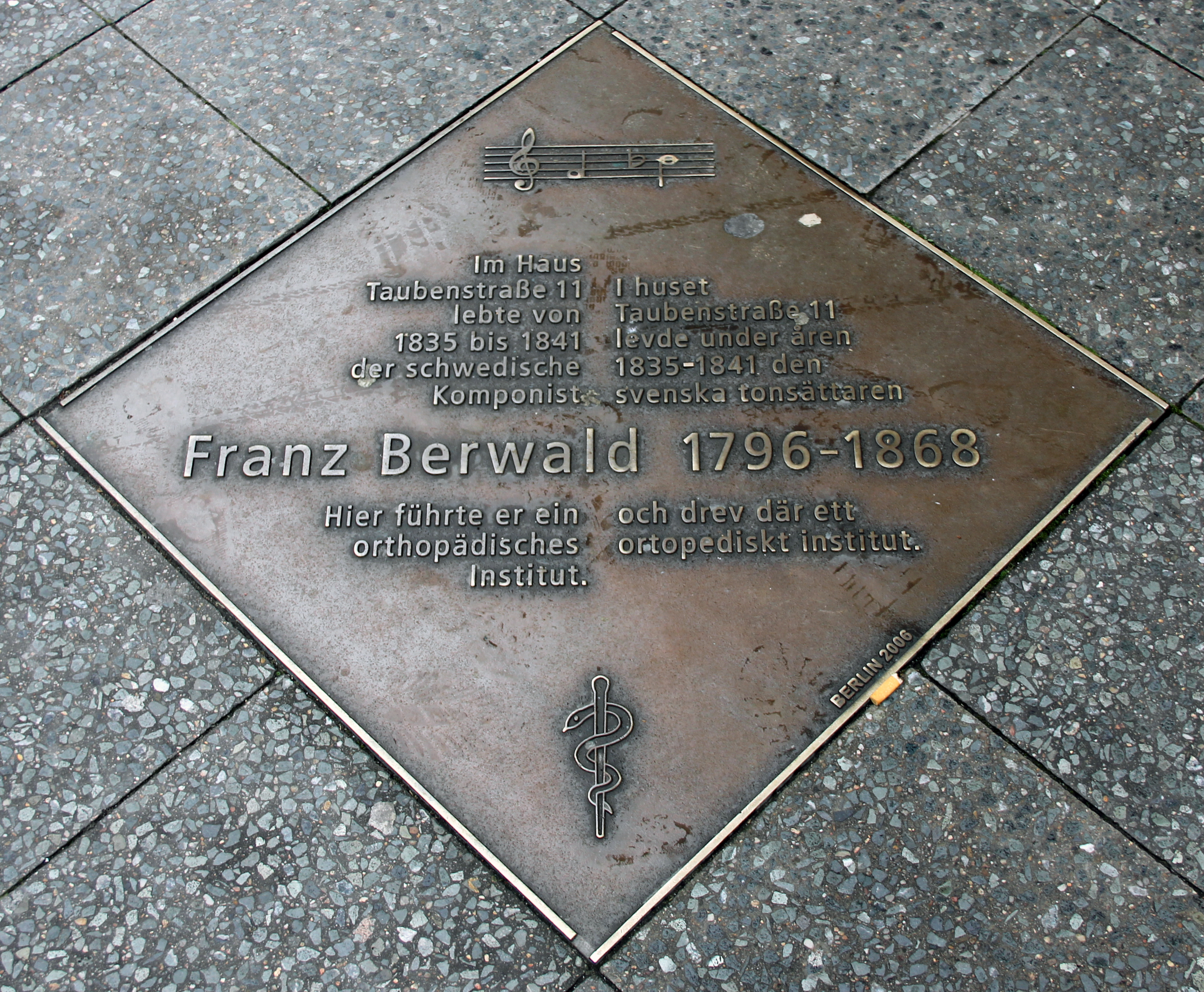 Memorial plaque, Franz Berwald, Taubenstraße 11, Berlin-Mitte, Deutschland